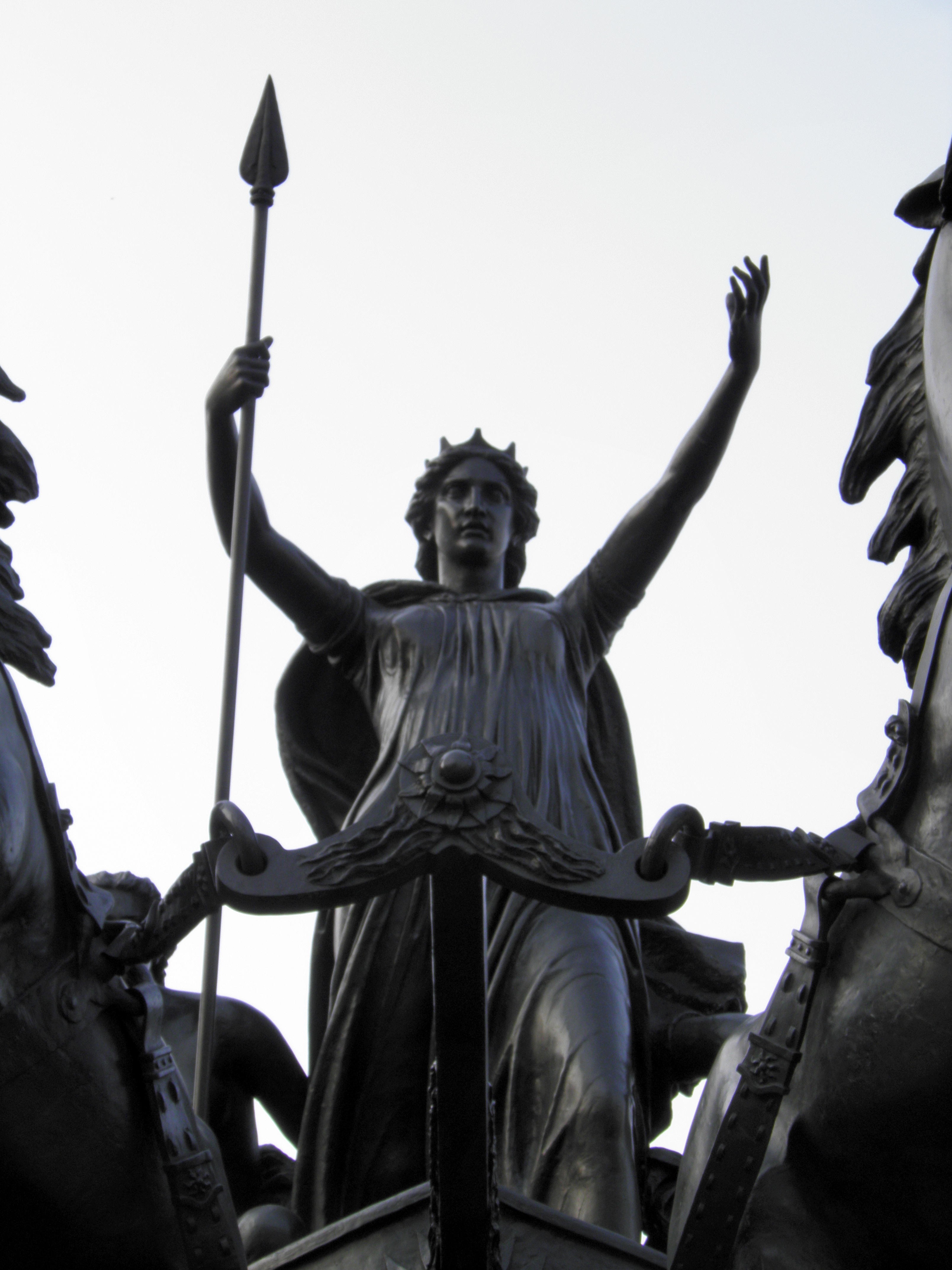 The bronze statue of Boudica with her daughters in her war chariot (furnished with scythes after the Persian fashion) was commissioned by Prince Albert and executed by Thomas Thornycroft. It was completed in 1905 and stands next to Westminster Bridge and the Houses of Parliament, with the following lines from Cowper's poem, referring to the British Empire: Regions Caesar never knew Thy posterity shall sway.